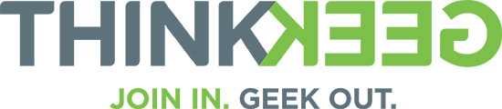 July 2014 logo for ThinkGeek